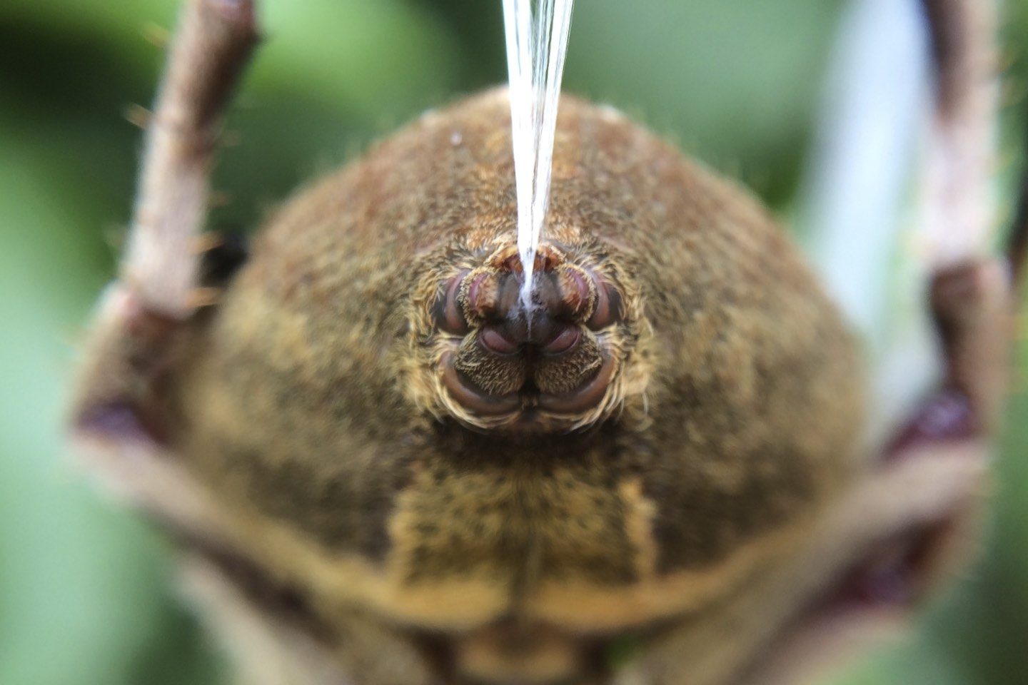 The spinneret of an Australian garden orb weaver spider (Eriophora transmarina).